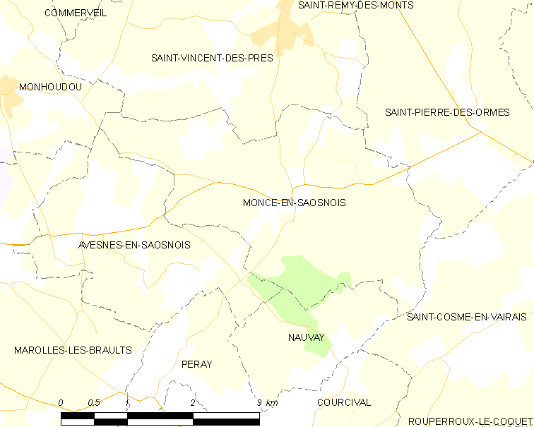 Map of French municipality